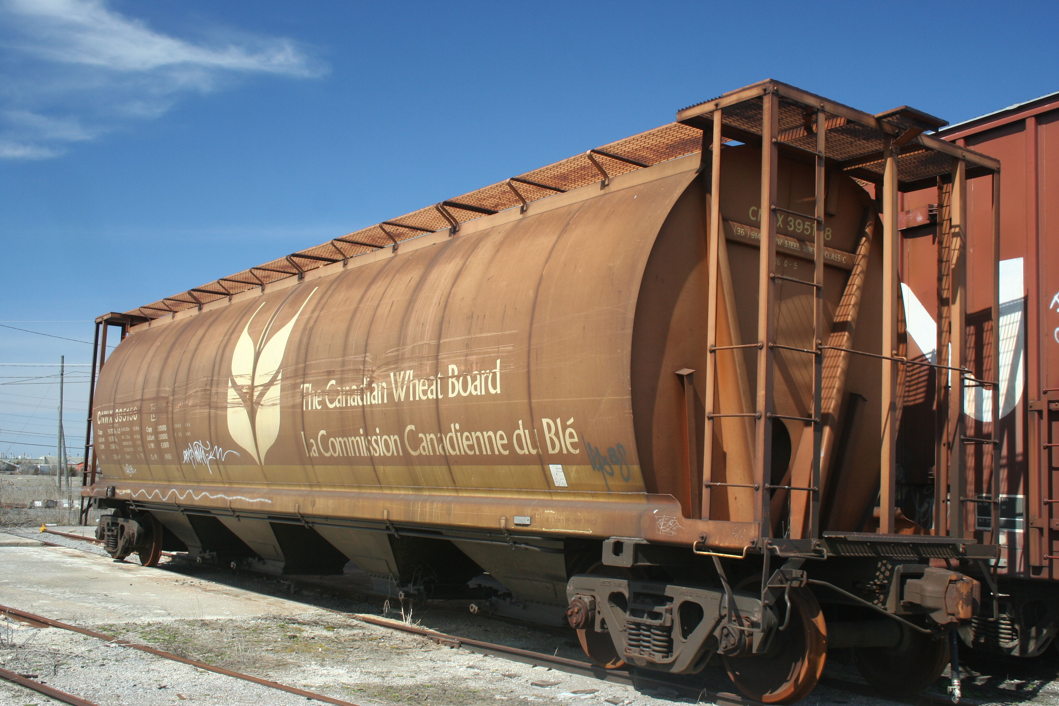 Wheat hopper. Belleville, Ontario, Canada.